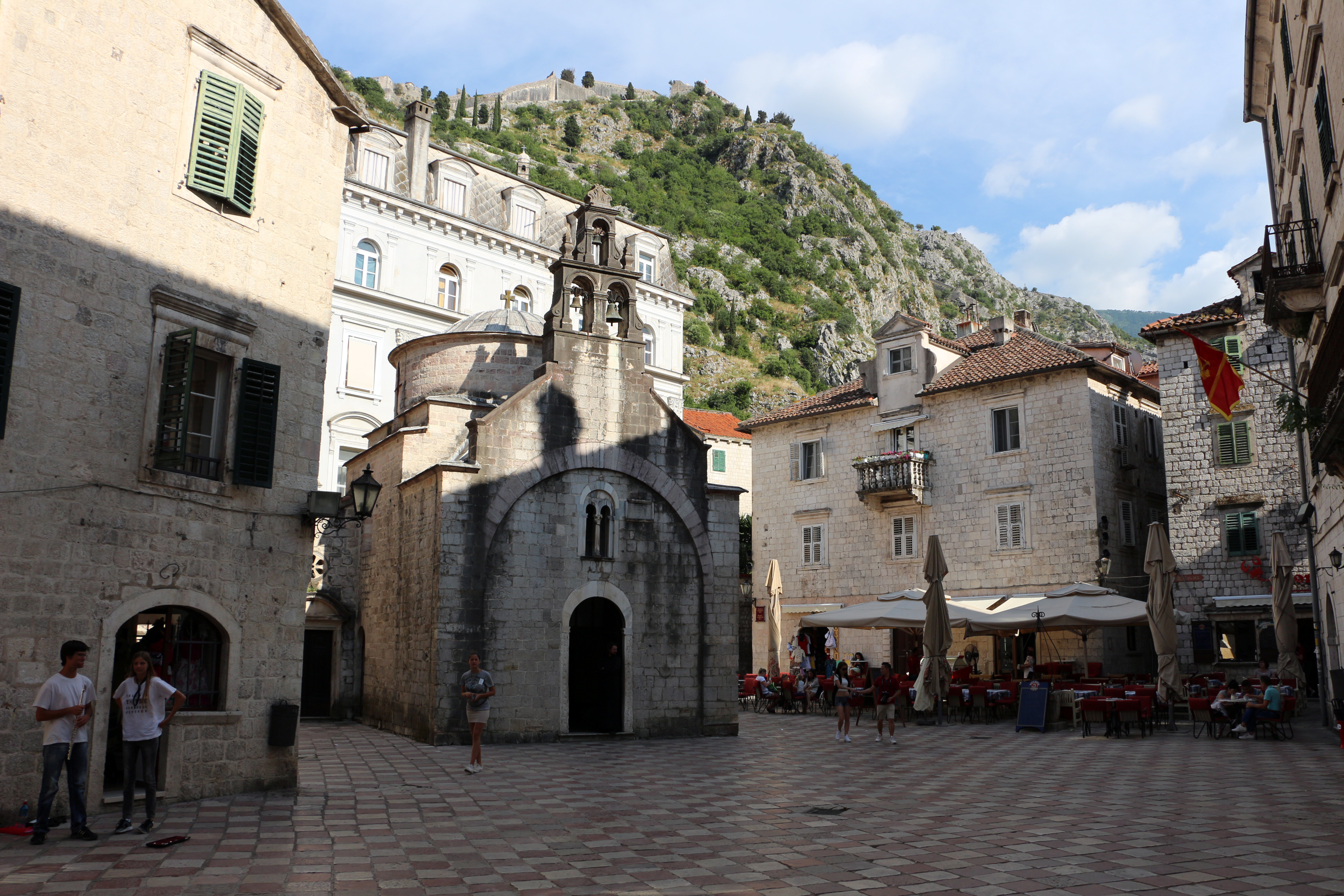 Church of Saint Luke in Kotor